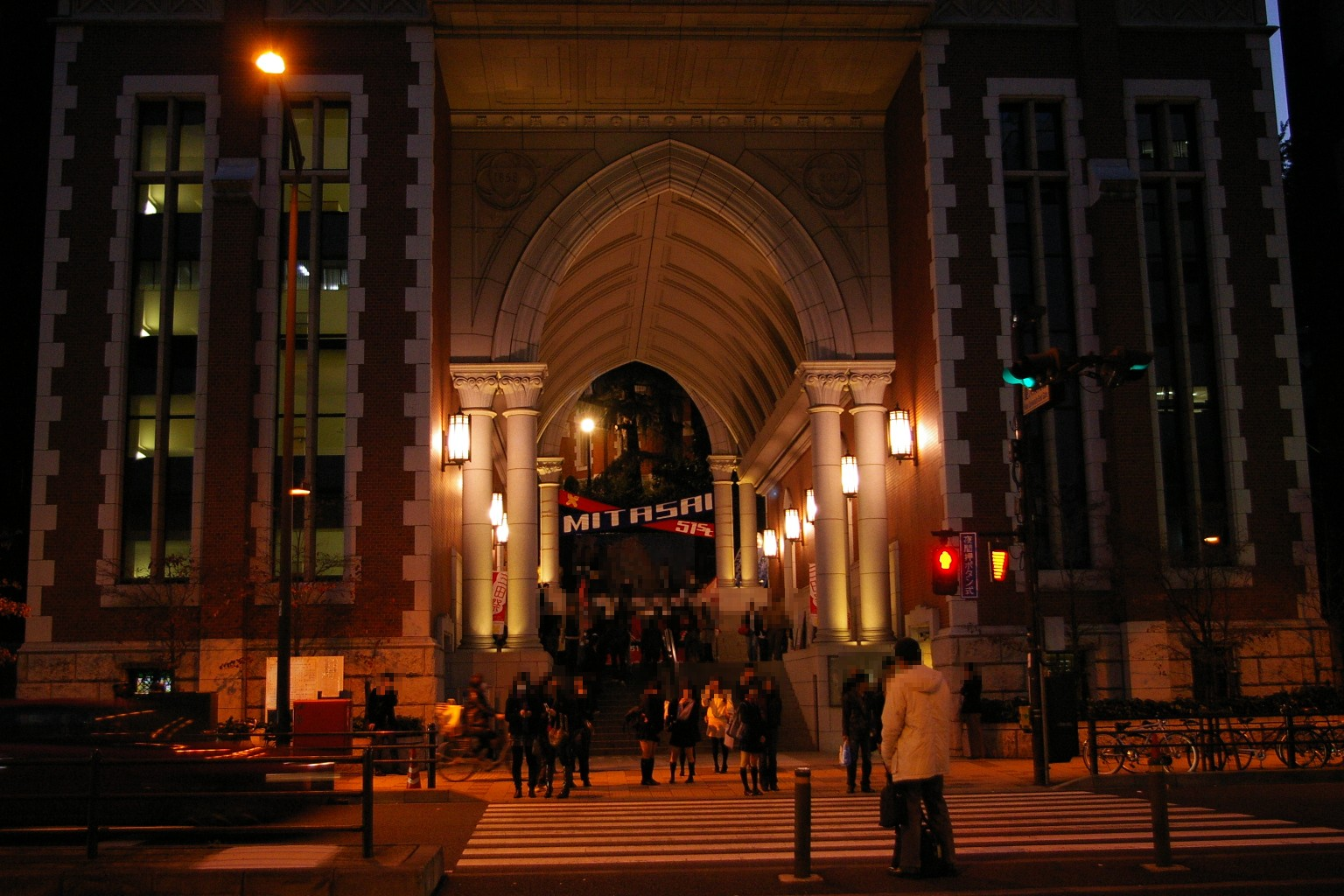 It took it in Tokyo 2009.